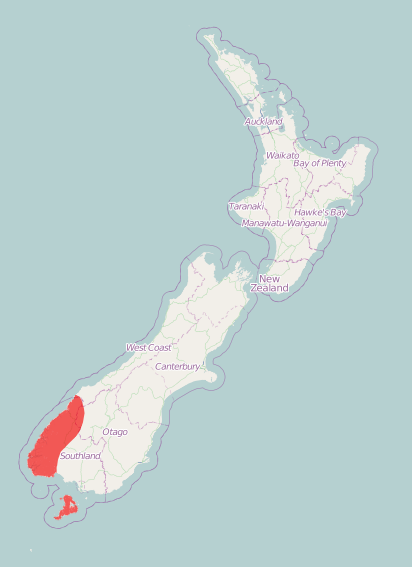 Strigops habroptila distribution map basing on OpenStreetMap and IUCN Red List data.